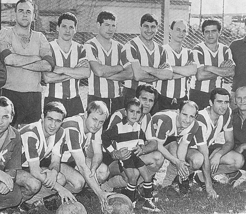 Estudiantes de Buenos Aires in 1966, the year that the team won the Primera C title.